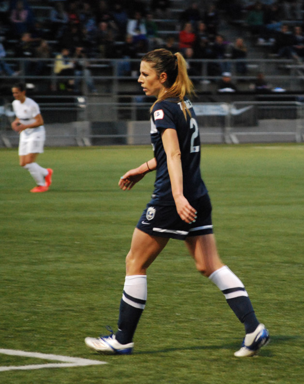 Emily Zurrer during a Seattle Reign FC match against the Washington Spirit on May 16, 2013 at Starfire Stadium in Tukwila, Washington.